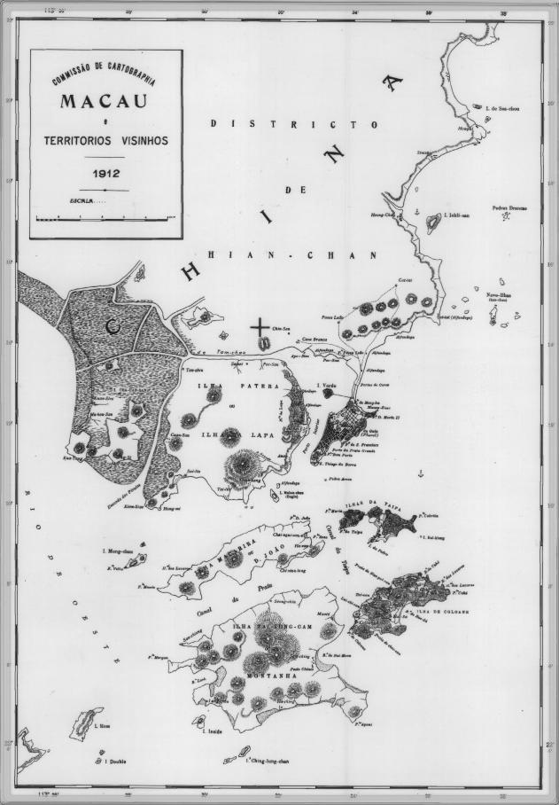 This is a map of Macau and is surrounded territories in 1912. In that time, the Portuguese Colony of Macau is formed by the Peninsula de Macau, Taipa and Coloane islands. Macau also have a great influence on the islands of Lapa, D. João and Montanha, located on the west of the Portuguese Colony of Macau. See here for original color version.